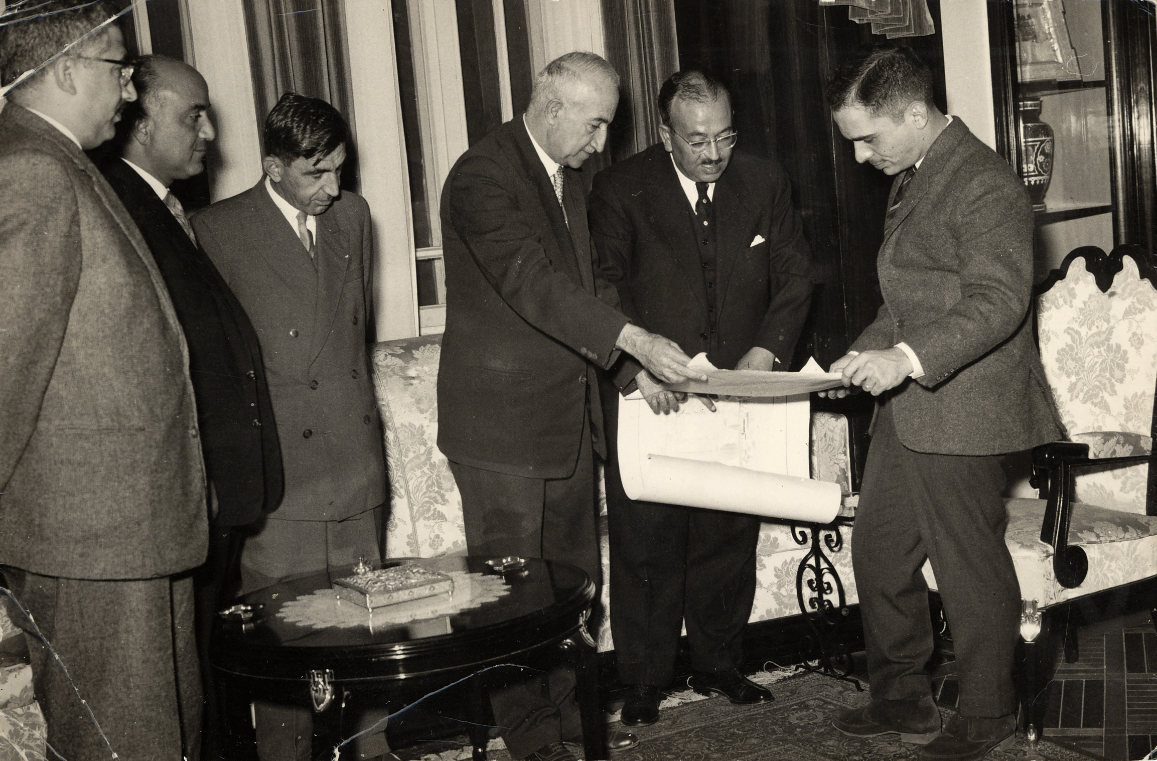 Omar Elwary the Mayor of Jerusalem visiting King Hussein to discuss establishing the Law Union in 1955.